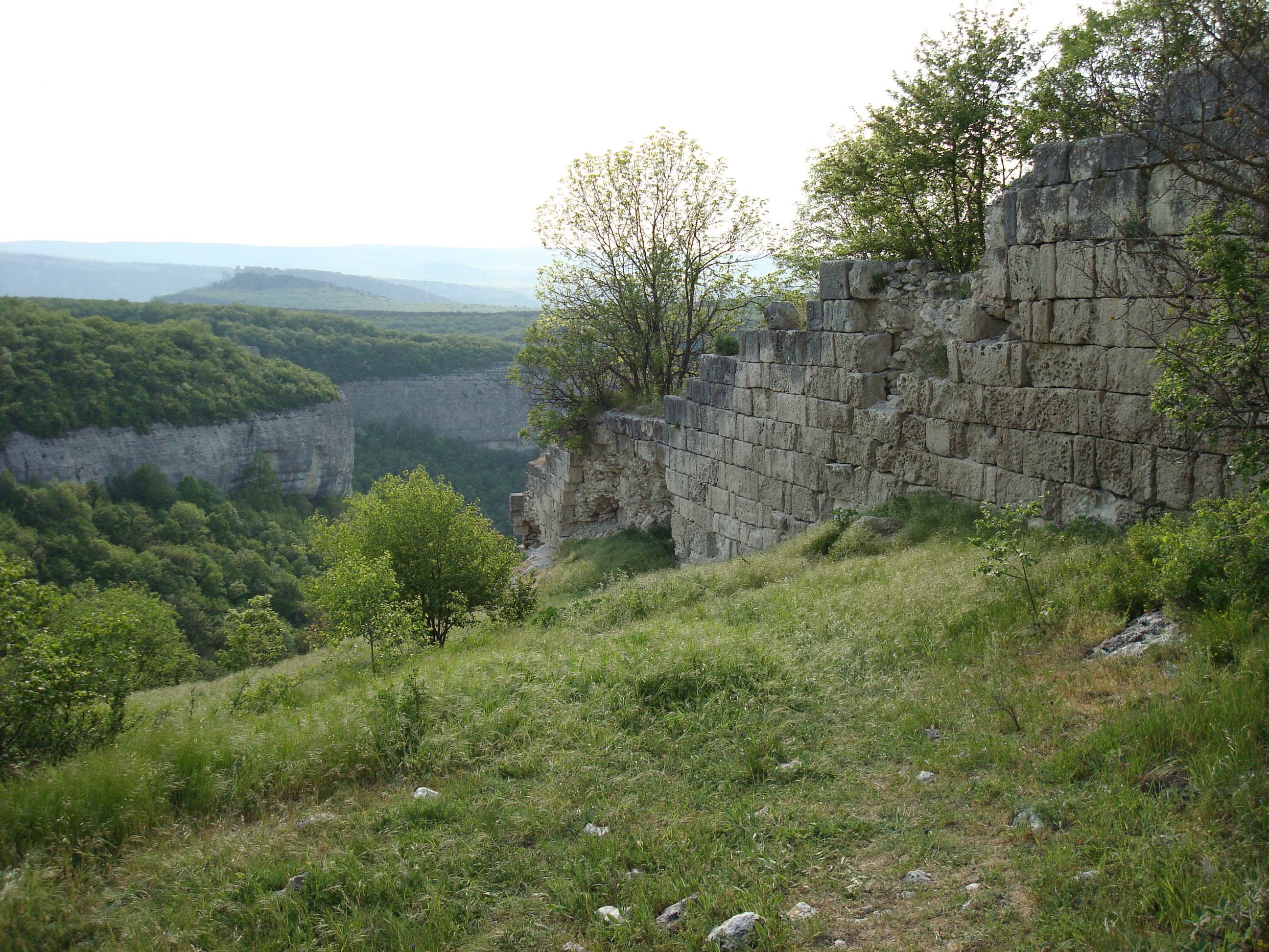 A wall of Suiren fortress